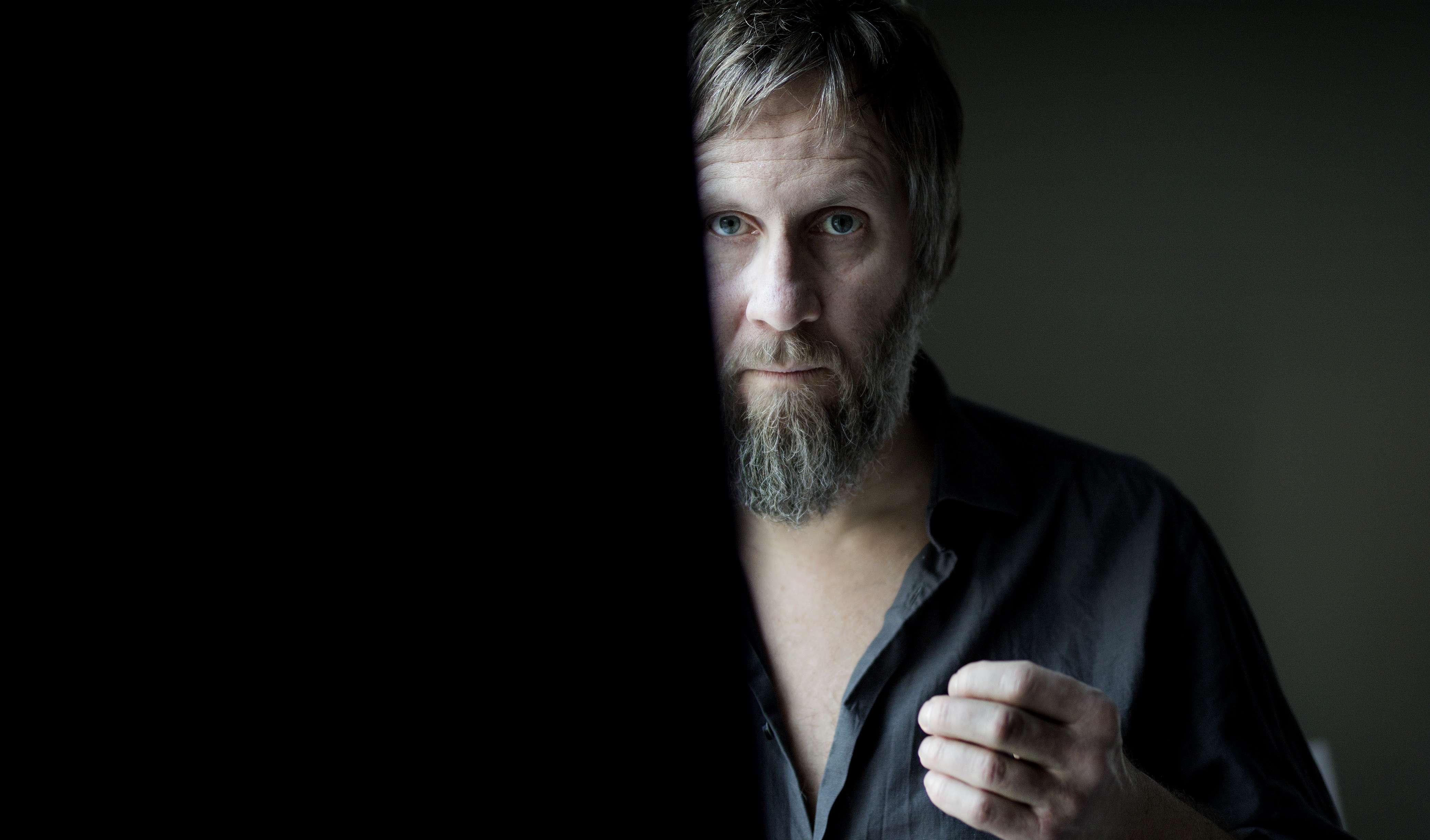 Portrait of Norwegian singer/songwriter Hasse Farmen.